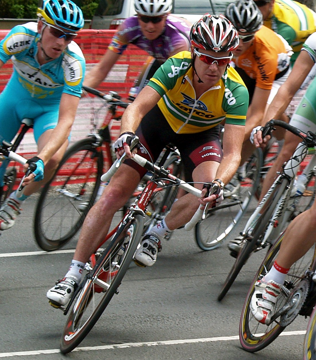 Australian cyclist Stuart O'Grady (Team CSC, riding for the Jayco Australian National Team) during Stage 7 of the 2007 Herald Sun Tour, Melbourne, Australia. To his left is Aaron Kemps (Team Astana).